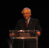 Photo of the Hon. James Bartleman, Lt-Governor of Ontario, speaking at the YPI/Leaders Today Event at the Carlu in Downtown Toronto